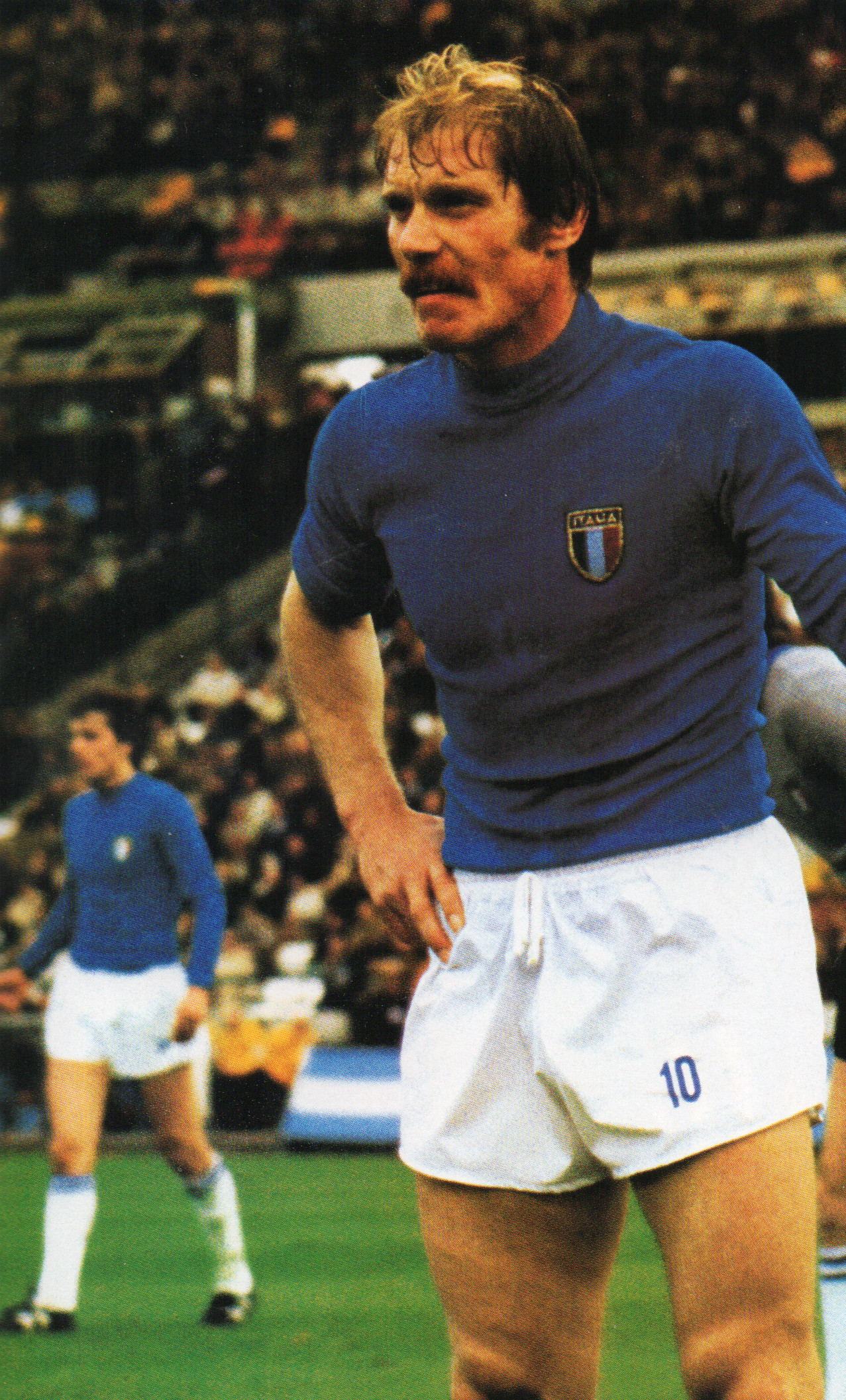 Romeo Benetti of Italy protects the goalpost during a corner kick of France at the group stage of FIFA World Cup 1978 in Argentina